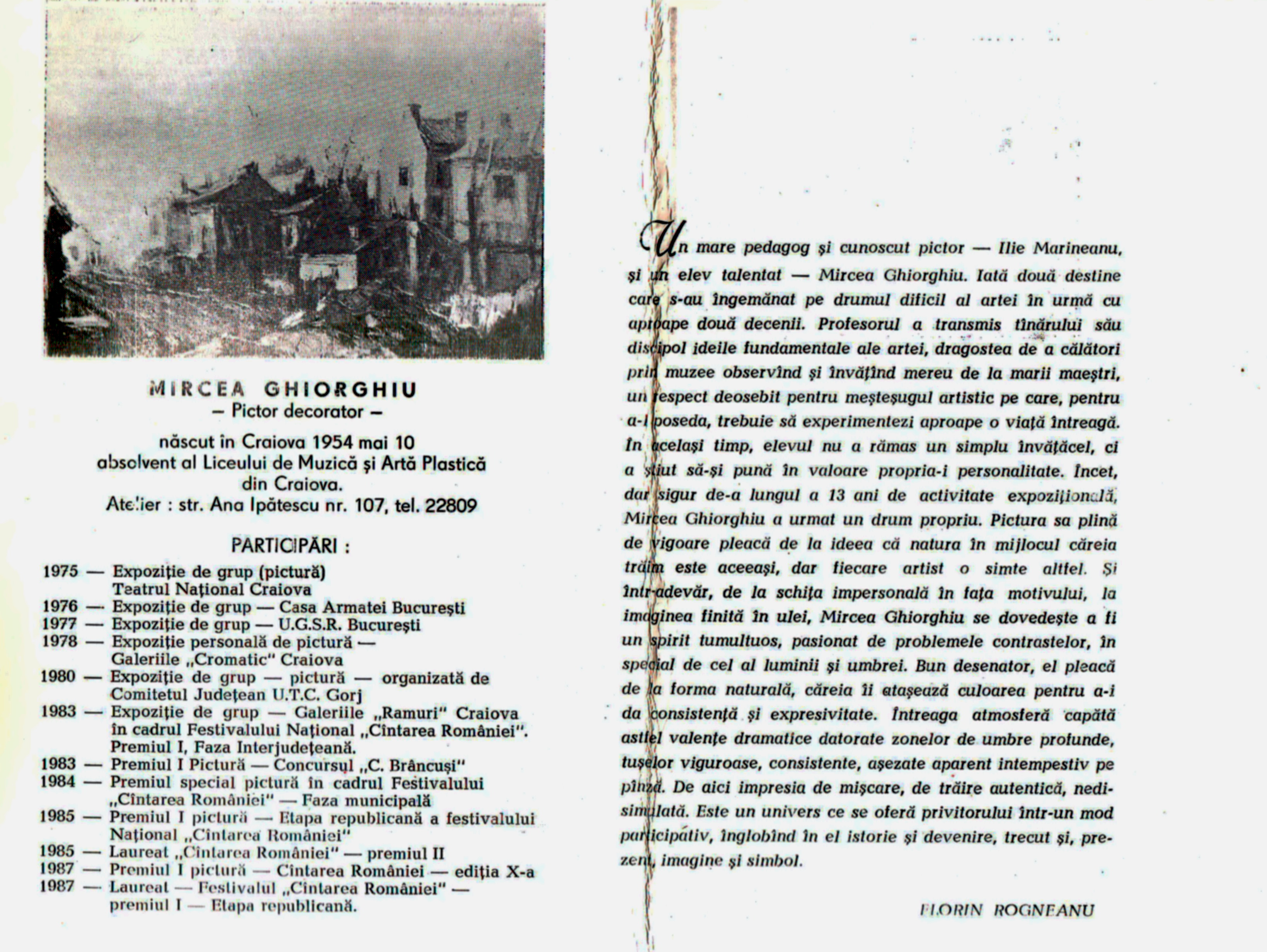 Painting Exhibition Catalogue Mircea Ghiorghiu in October-November 1988 from the Art Museum of Craiova